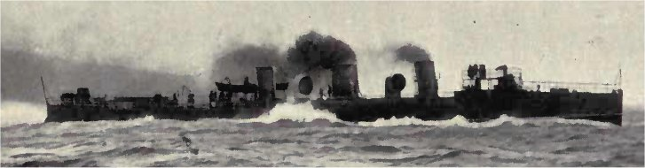 Photograph of British destroyer H. M. S. Viper, circa 1901.